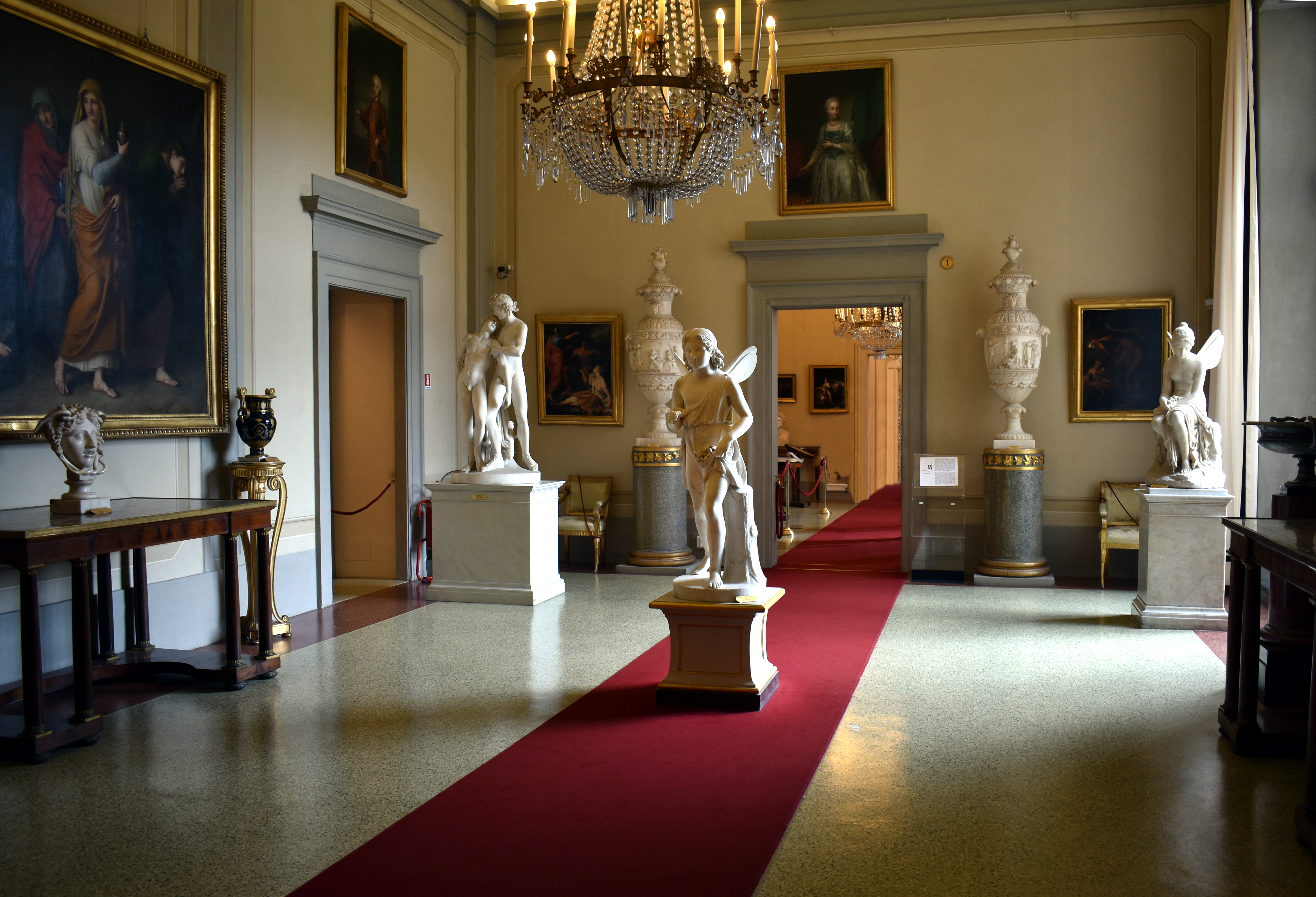 Room 1 of the Galleria d'Arte Moderna in the Palazzo Pitti in Florence; sculptures: (left): Apollo e Giacinto (1810c.) by Stefano Ricci; (centre): Zefiro (1841) by Luigi Bienamé; (right): Psiche Abbandonata (1819c.) by Pietro Tenerani